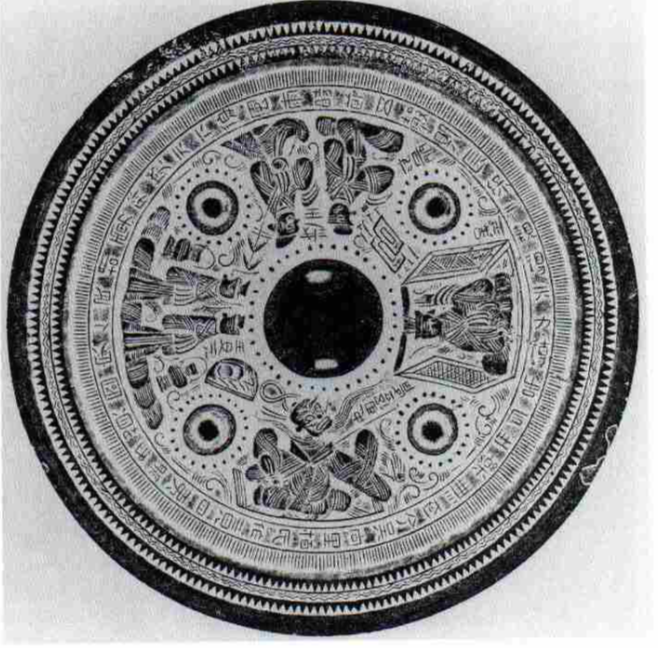 Ink rubbing of the bronze mirror back consists narrative of a story of two southern states in Spring and Autumn Period.